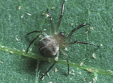 female Wendilgarda sp. from Okinawa.